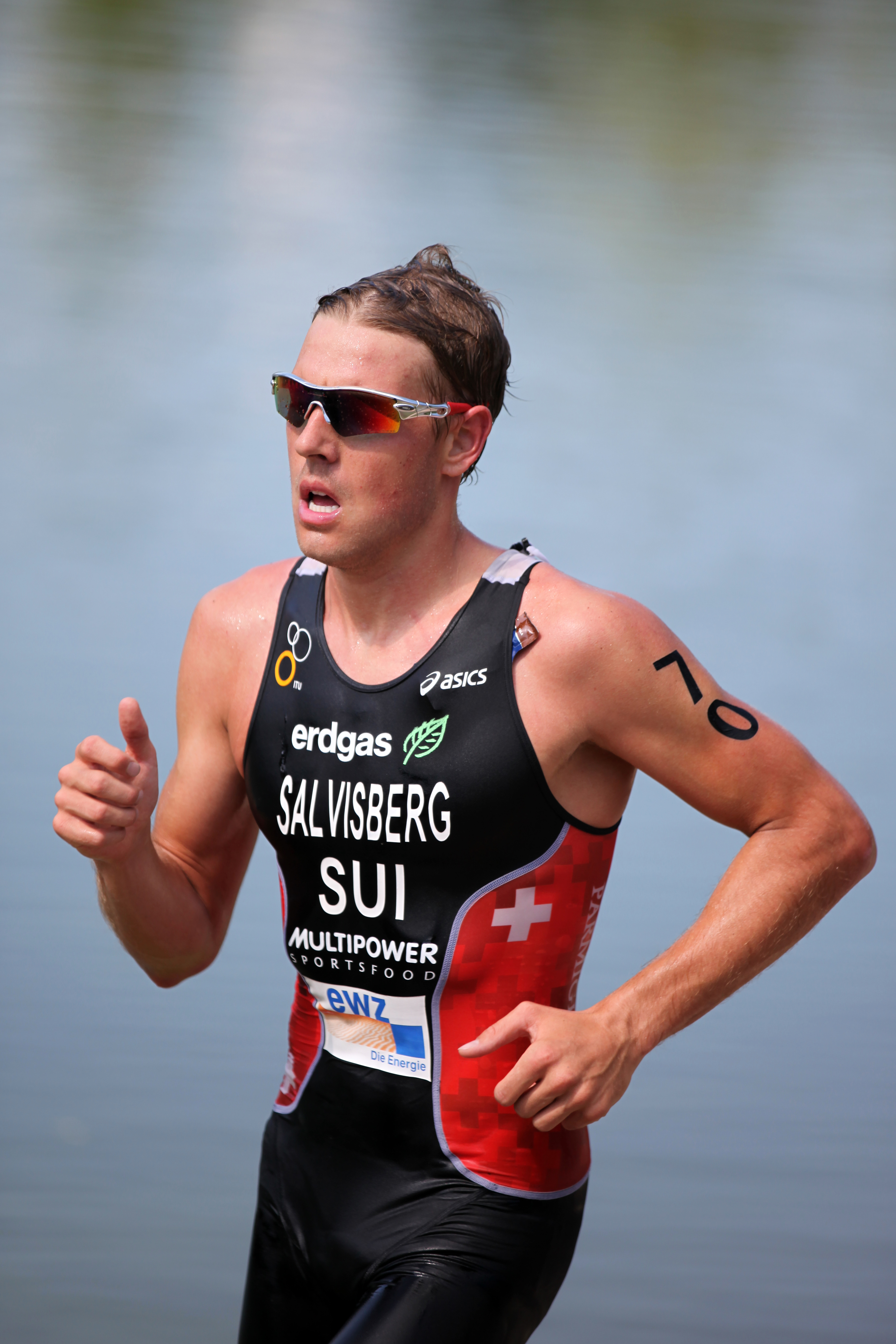 Andrea Salvisberg at the World Cup triathlon in Tiszaújváros.